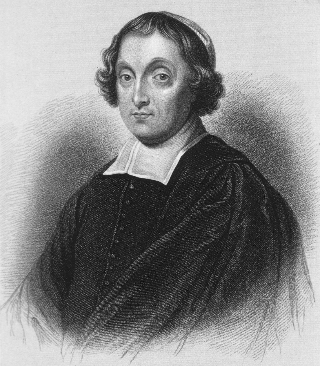 Cardinal David Beaton (c. 1494 – 29 May 1546) was Archbishop of St Andrews and the last Scottish Cardinal prior to the Reformation